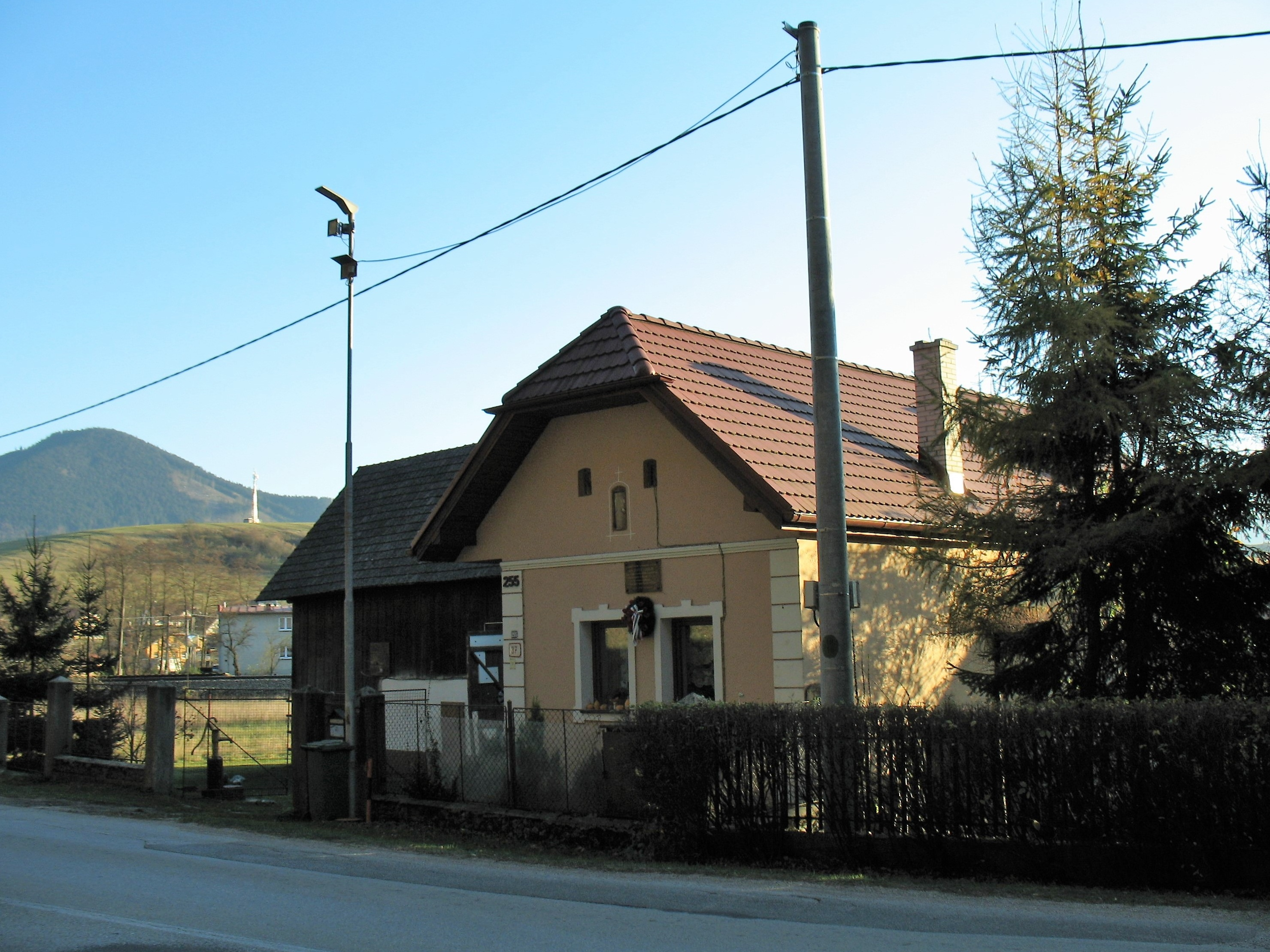 Birth house of Josef Gabčík in Poluvsie, Žilina District, Slovakia